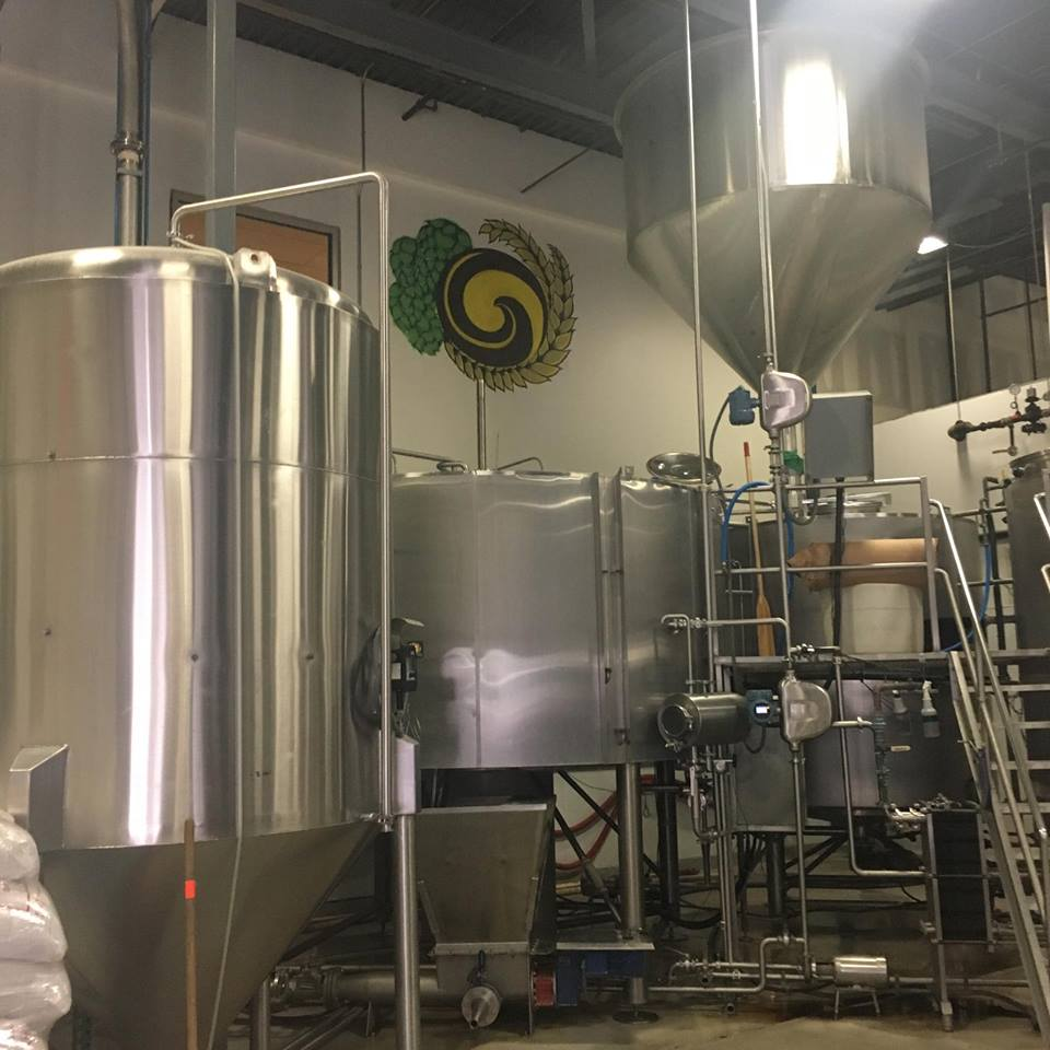 Picture I took during the brewery tour at Two Brothers.